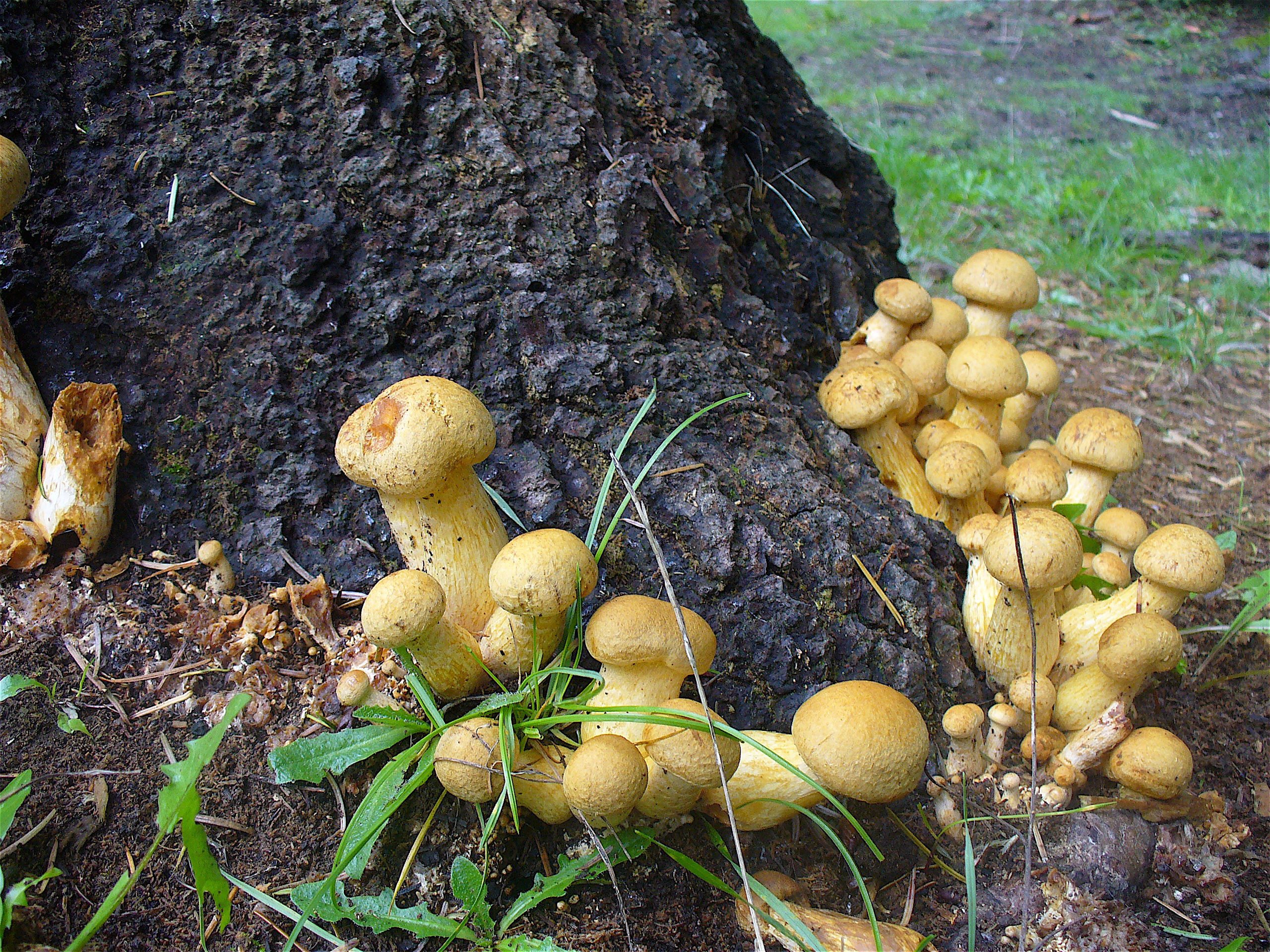 Fruit bodies of the fungus Gymnopilus ventricosus (Earle) Hesler. Specimens photographed in Olympia, Thurston Co, Washington, USA.